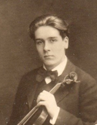 Walther Davisson, German violinist, conductor and musical educator